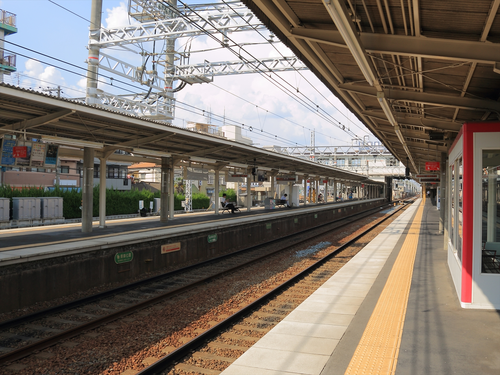 Platfrom from Shōjaku Station.